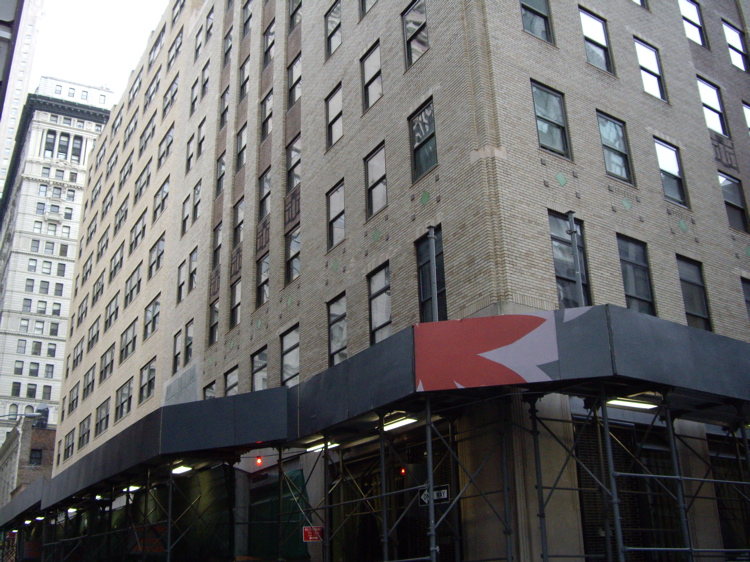 19 Rector Street